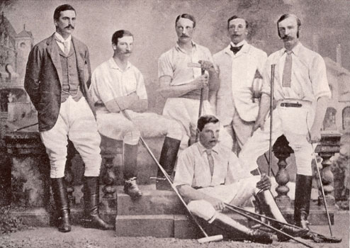 British 1885 International Polo Cup team T. Hone, R. Lawley, Malcolm Orme Little and John Watson.